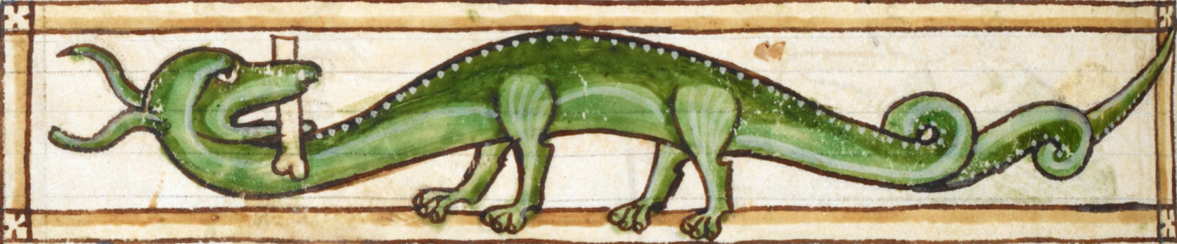 Seps - Bestiary Harley MS 3244, ff 36r-71v